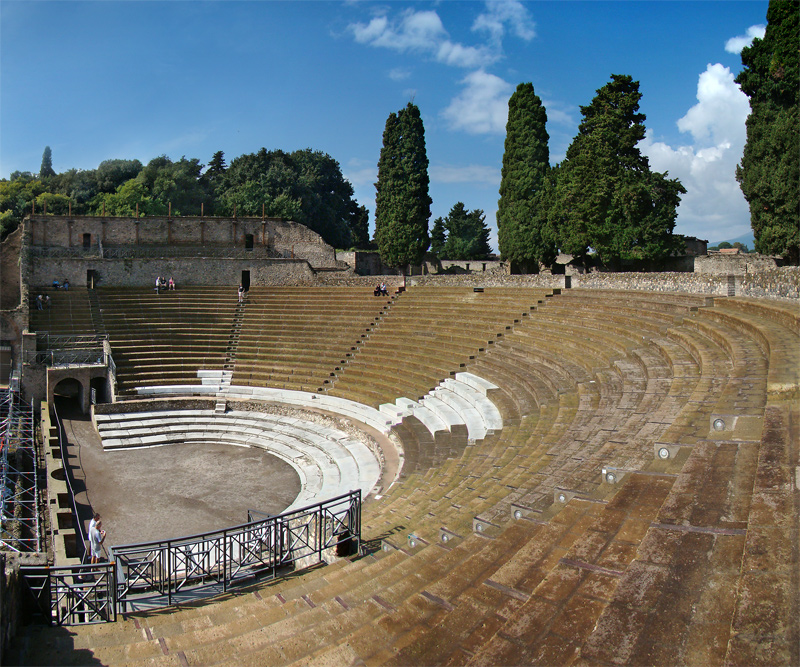 Grand Theatre, Pompeii, Campania, Italy.